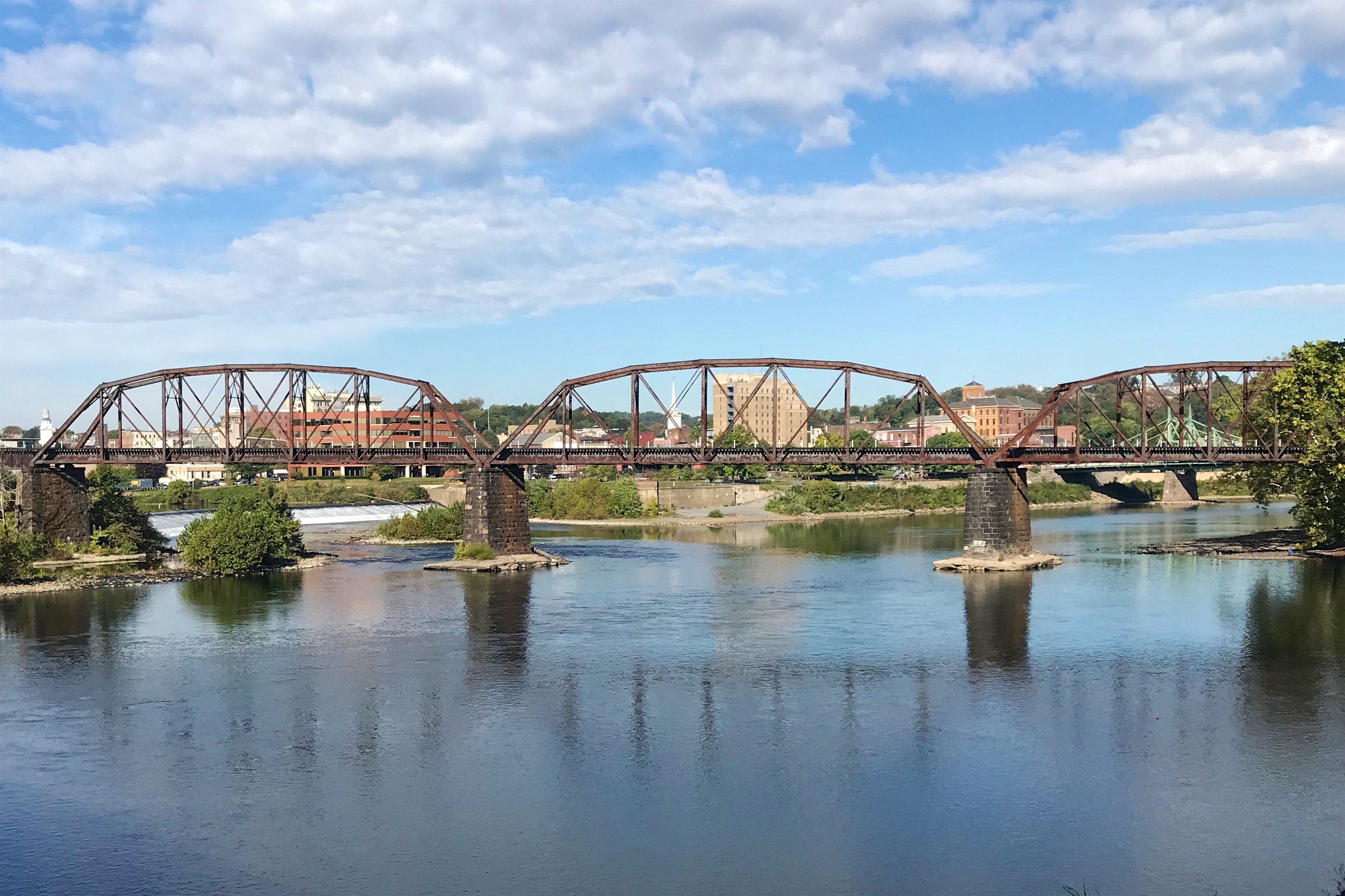 The Lehigh and Hudson River Railway Bridge over the Delaware River between Easton, Pennsylvania and Phillipsburg, New Jersey. Easton, the Lehigh River Dam feeding the Delaware Canal, and the Northampton Street Bridge are in the background.